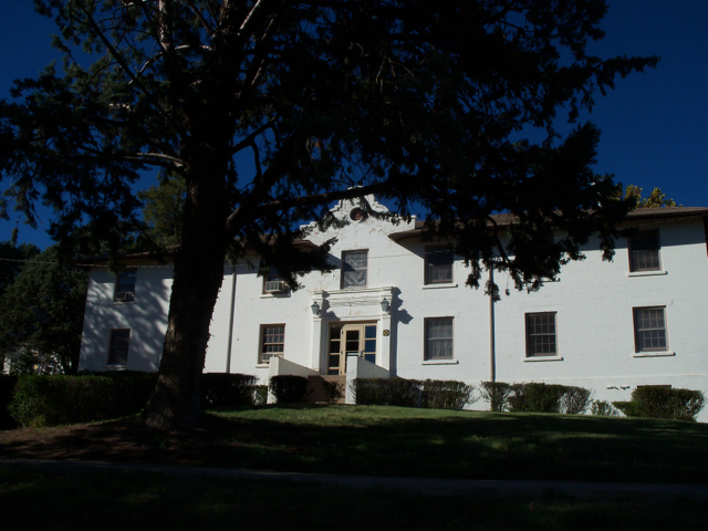 Bowden Hall, Northeast of Light Hall and southwest of Heating Plant on the Western New Mexico University campus Silver City